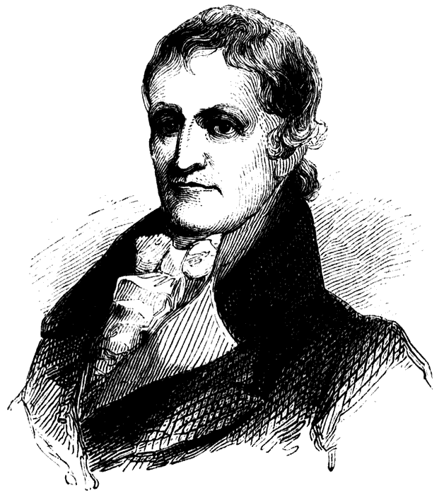 Joseph Habersham (1751-1815), 6th U.S. Postmaster General.